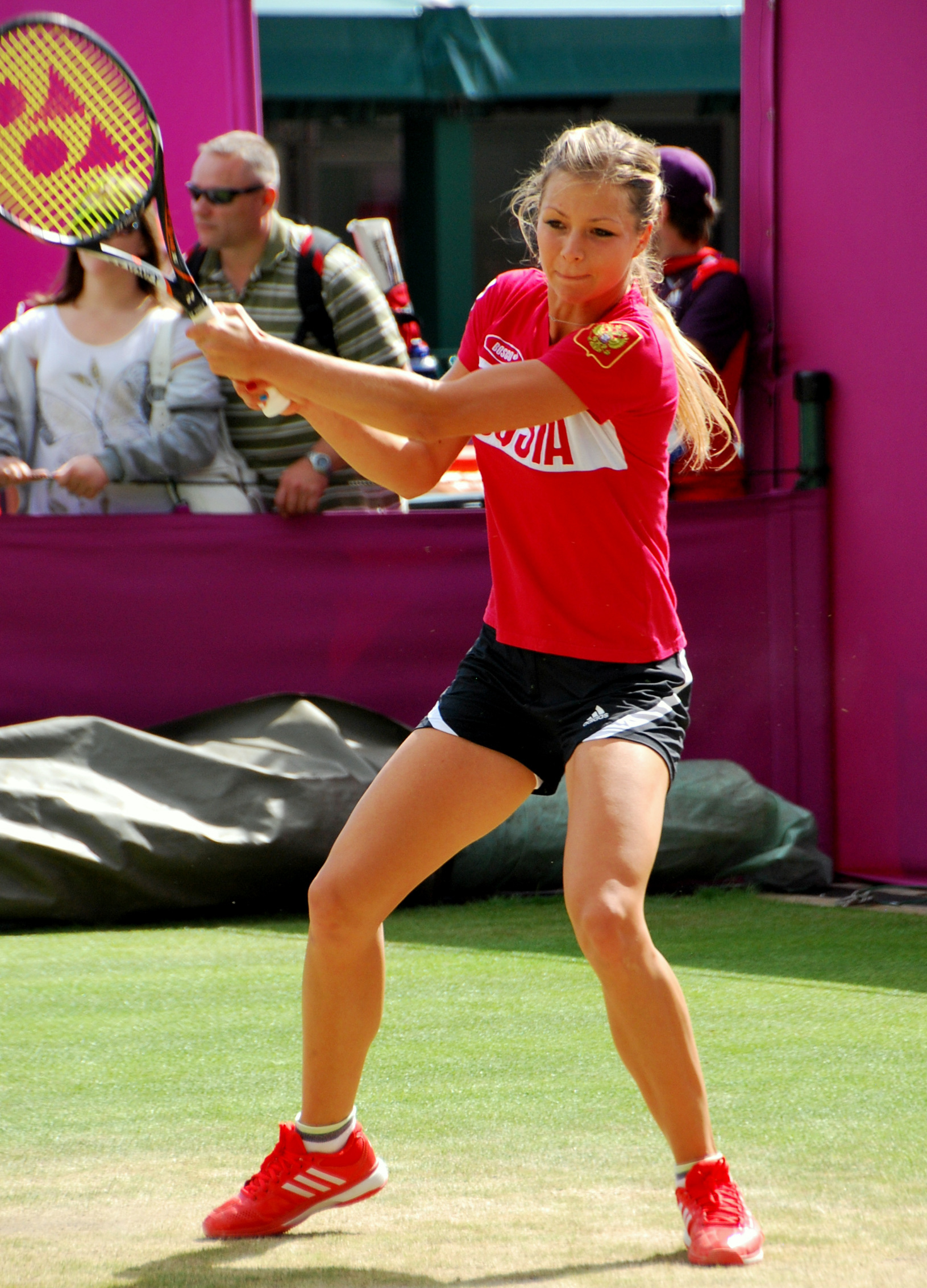 Maria Kirilenko on the practice court with Russian team-mate and doubles partner Nadia Petrova, before her first round match in the London 2012 Olympics at Wimbledon.